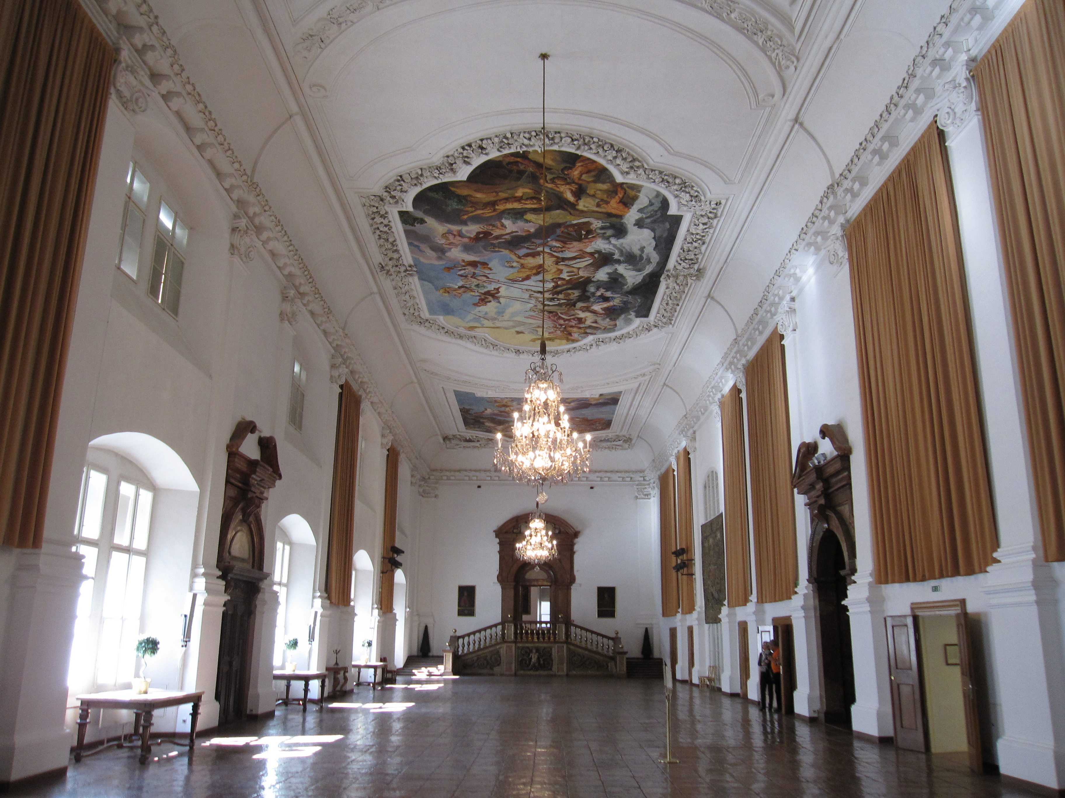 Karabinieri-Saal of the Salzburg Residence.